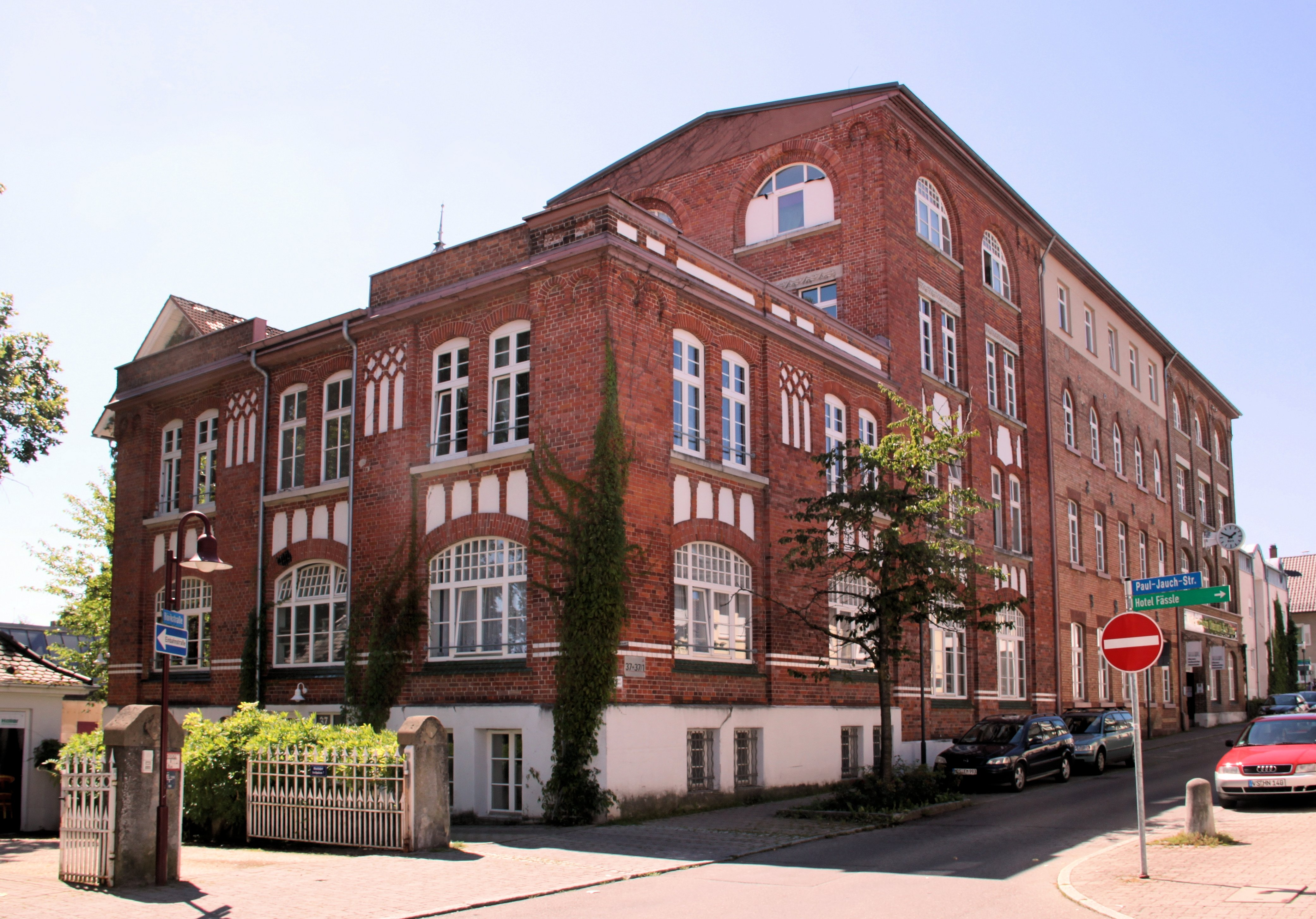 Villingen-Schwenningen: Former Württembergische Uhrenfabrik Bürk, today housing the clock industry museum.